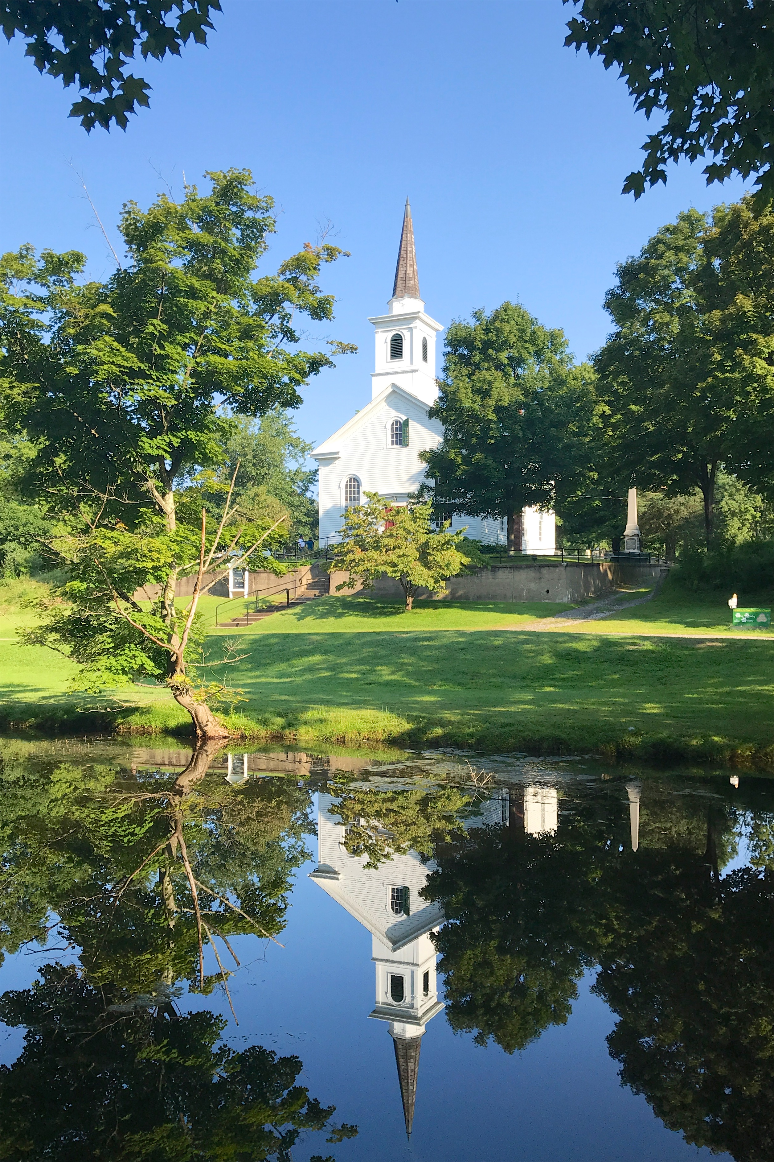 The United Methodist Church at Waterloo Village, New Jersey.